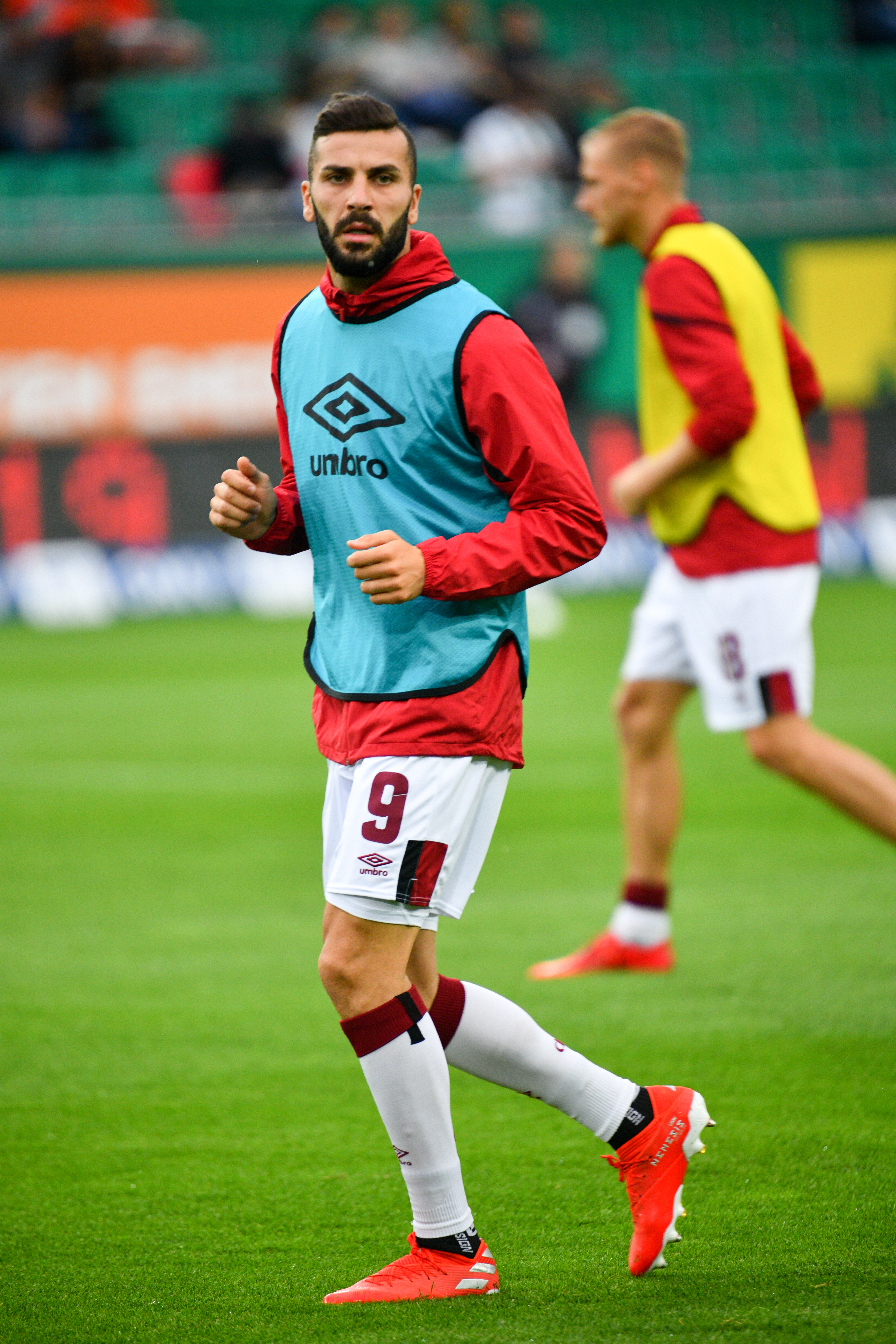 Austrian soccer league season 2019/20, friendly pre-season match SK Rapid Wien vs. 1. FC Nürnberg. Picture shows: Mikael Ishak (FCN).